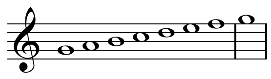 Mixolydian mode on G.